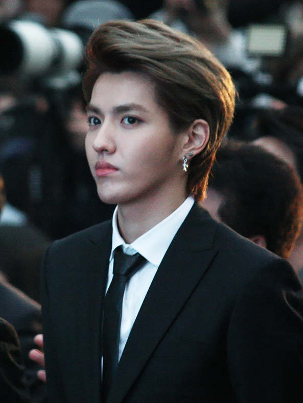 Kris Wu at the Hallyu Star Street on March 12, 2014.